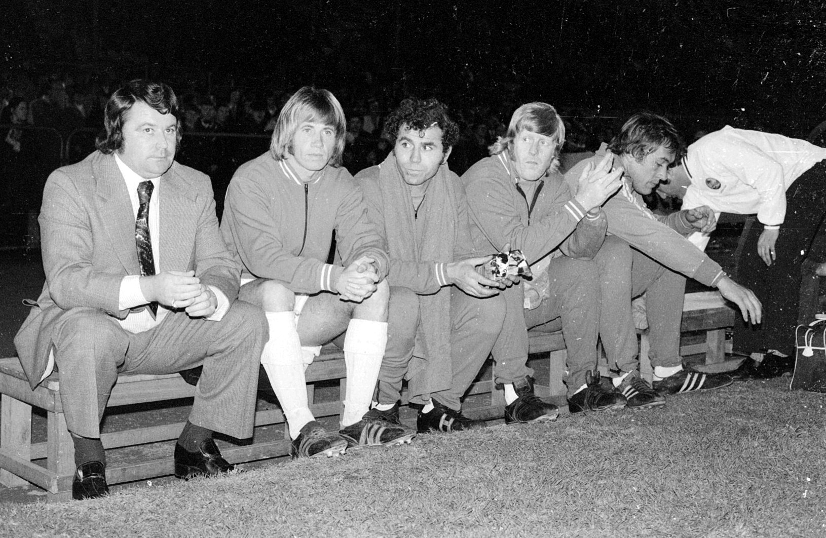 Hellenic FC Manager John Byrne and players on bench 1972